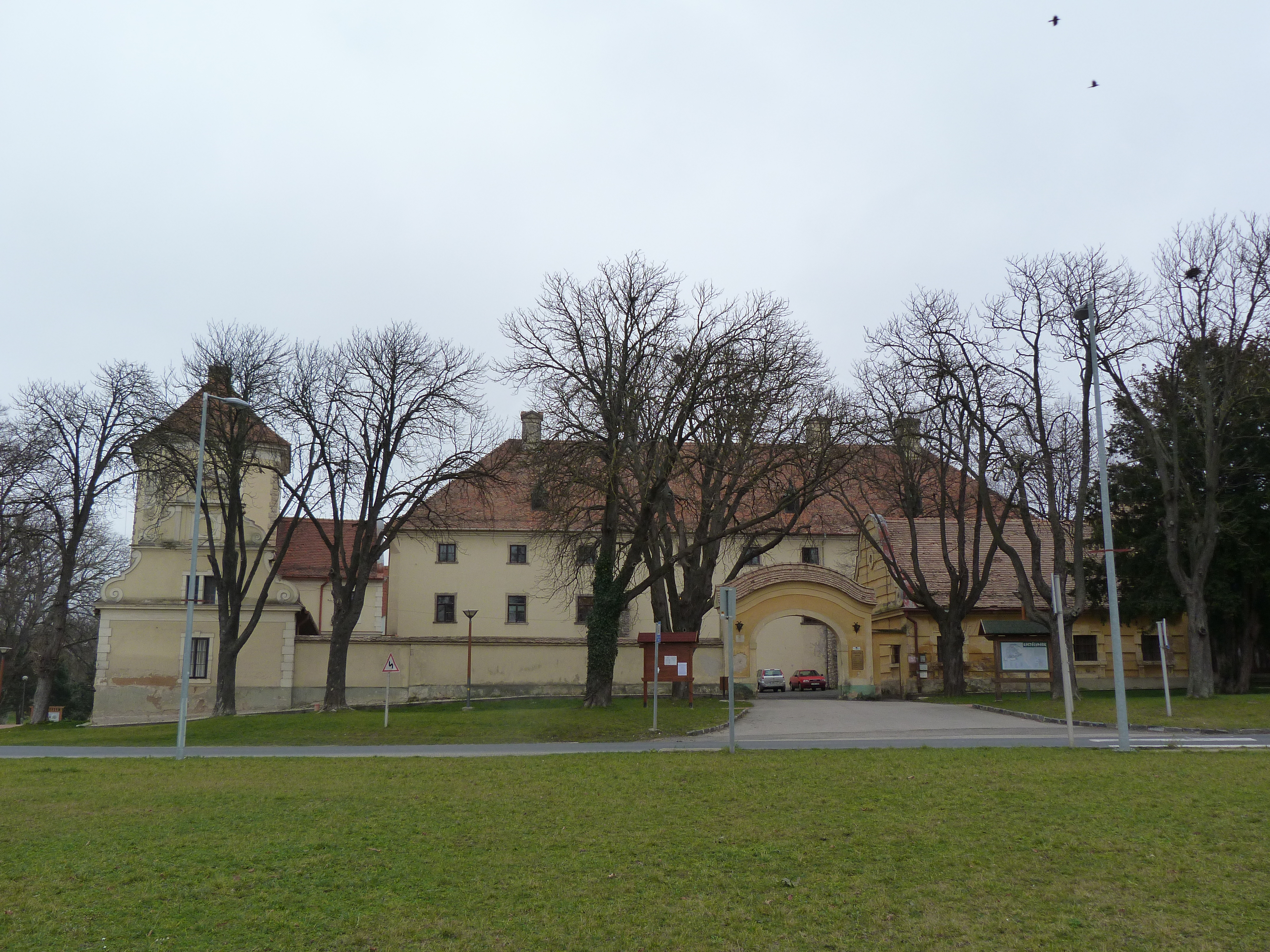 Taken on the 7th of March, 2016. Devecser, Hungary. Devecseri vár. Barock and eclectic style. Built by Devecseri Csóron Andár, beetween 1532 and 1539.